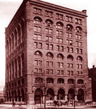 Photograph of the Society for Savings Building in Cleveland, Ohio